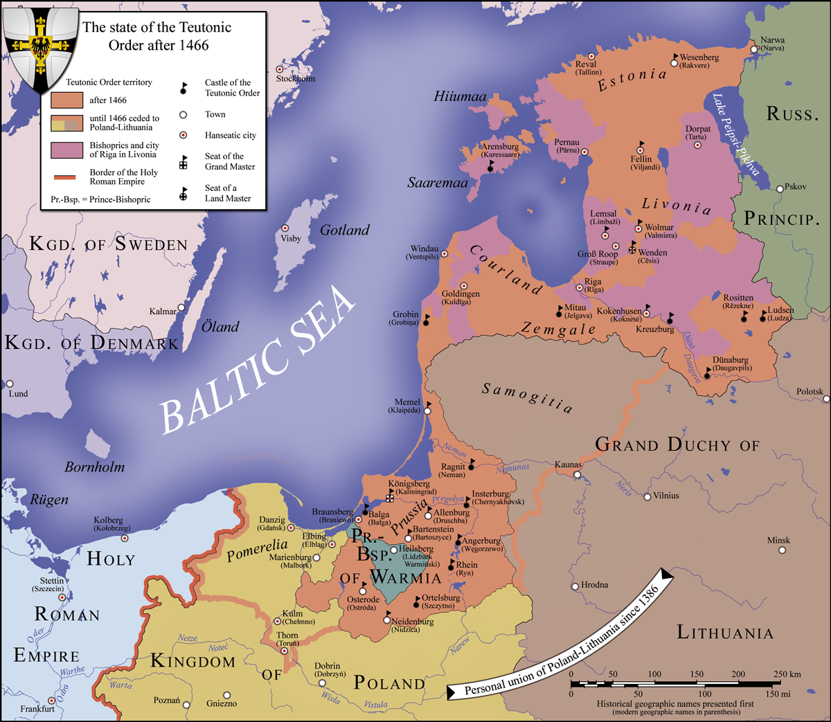 Map of the monastic state of the Teutonic Knights 1466